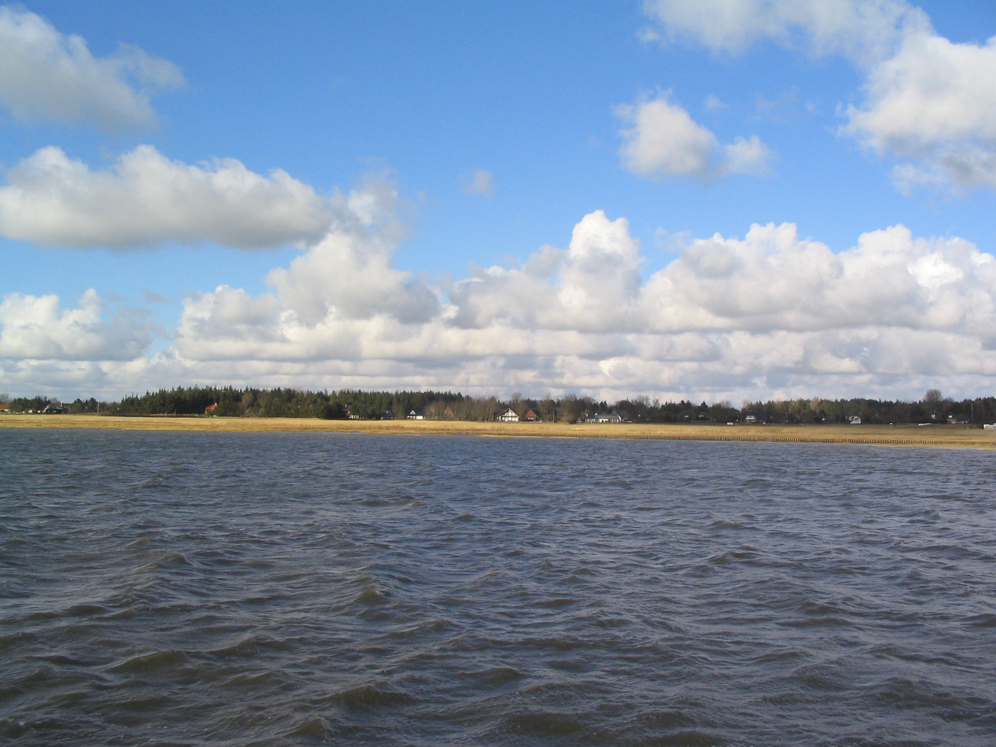 Schobüll, Nordfriesland from the sea